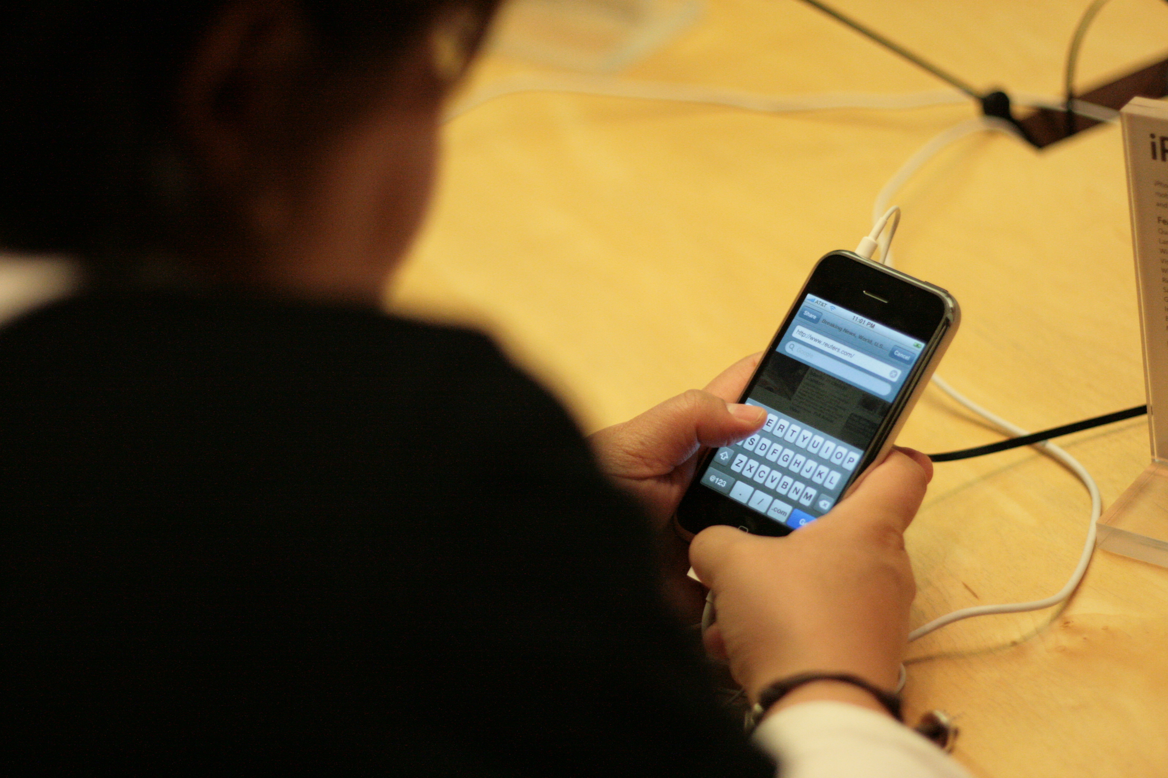 iPhone.